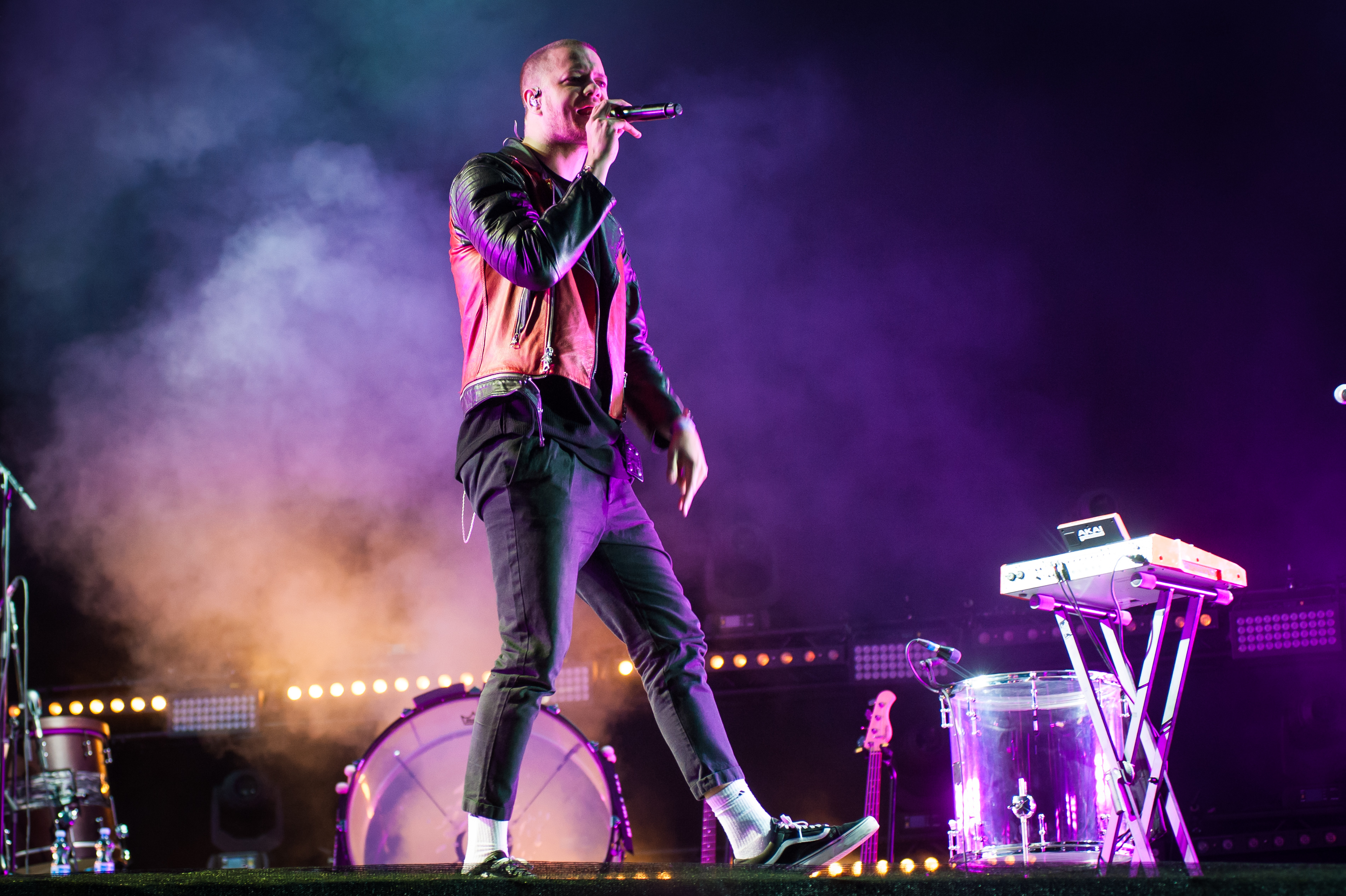 American rock band Imagine Dragons performing at the Ilosaarirock festival in Joensuu, Finland.